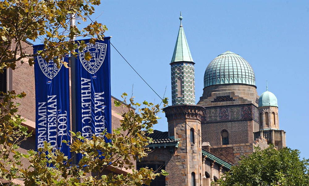 Department of Communications and Public Affairs, Yeshiva University